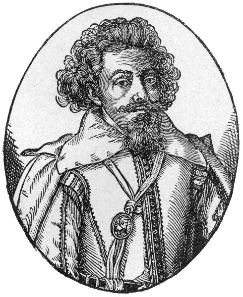 Michael Praetorius